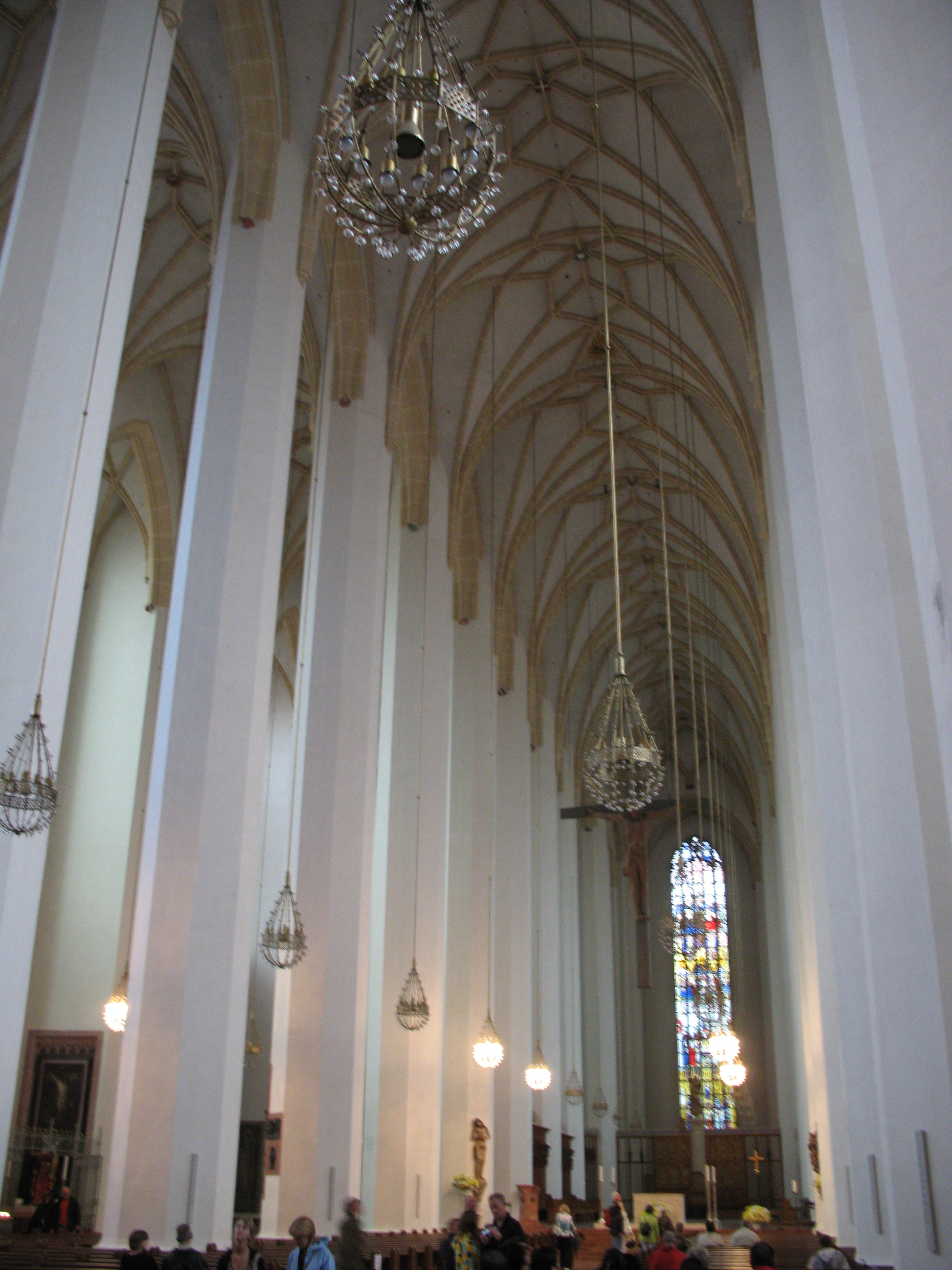 Church of Our Lady, Munich, Germany